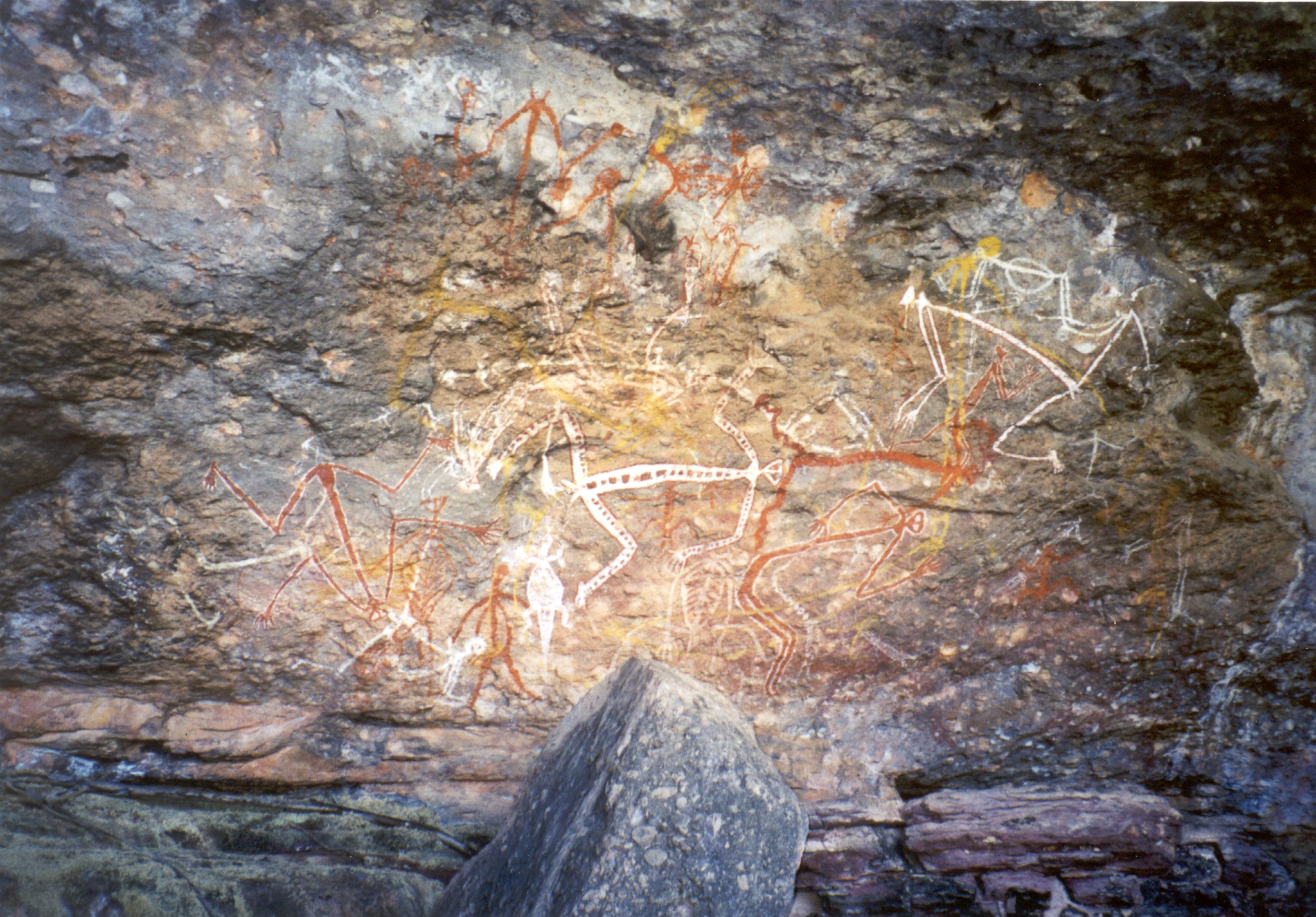 Uncropped photo of an Australian Aboriginal arten rock painting of Mimi spirits in the Anbangbang gallery at Nourlangieen in Kakadu National Parken.